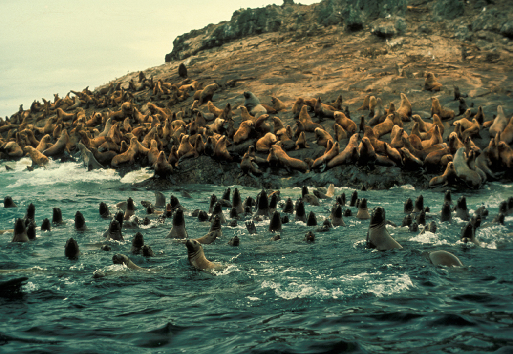 Steller sea lion group (Eumetopias jubatus) at haulout